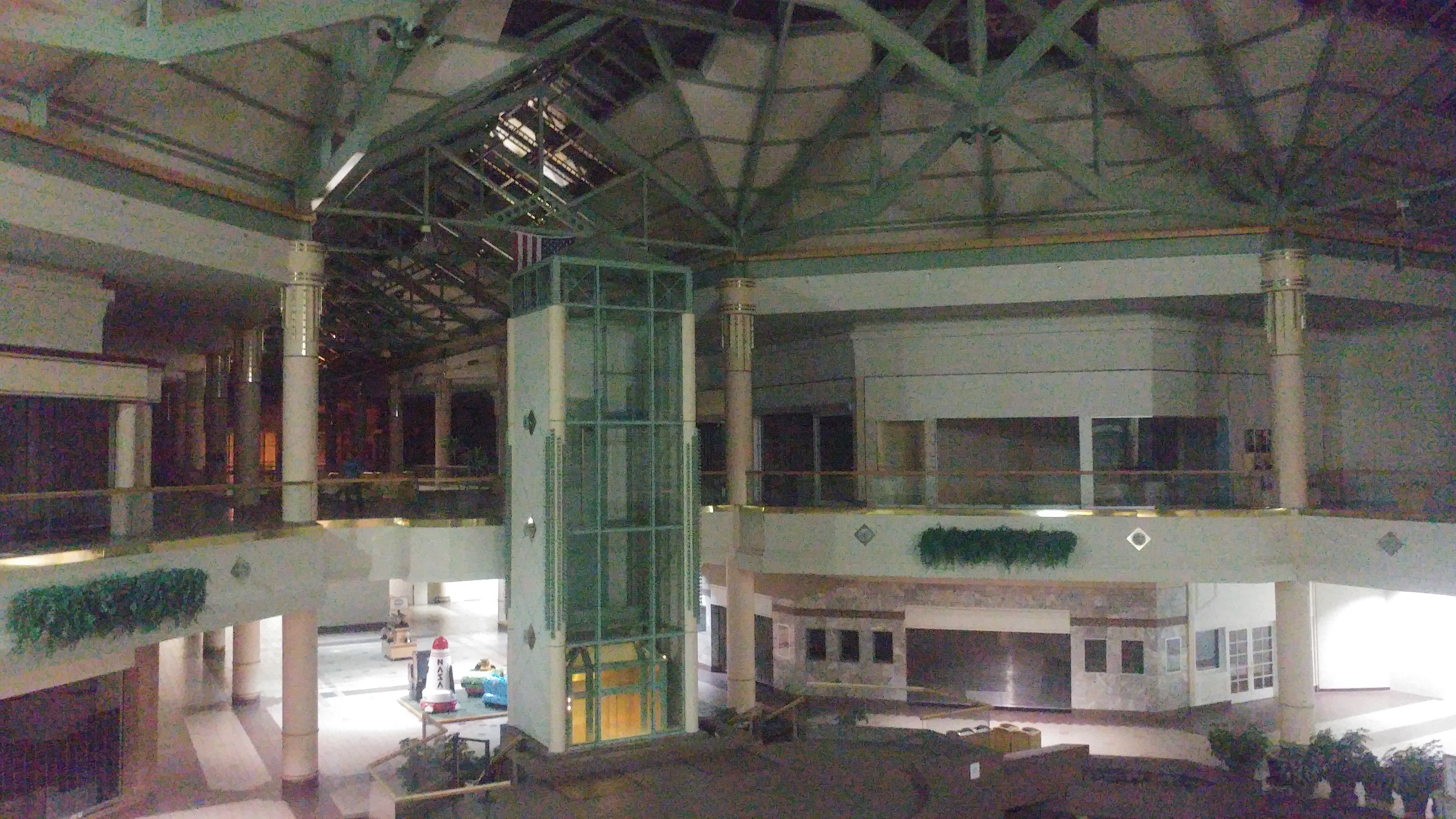 Charlestowne Mall on Final day in operation.